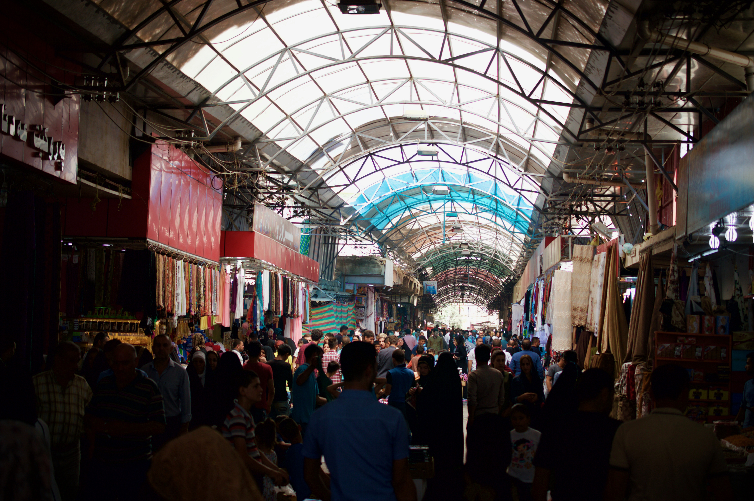 Bazaar in Zakho